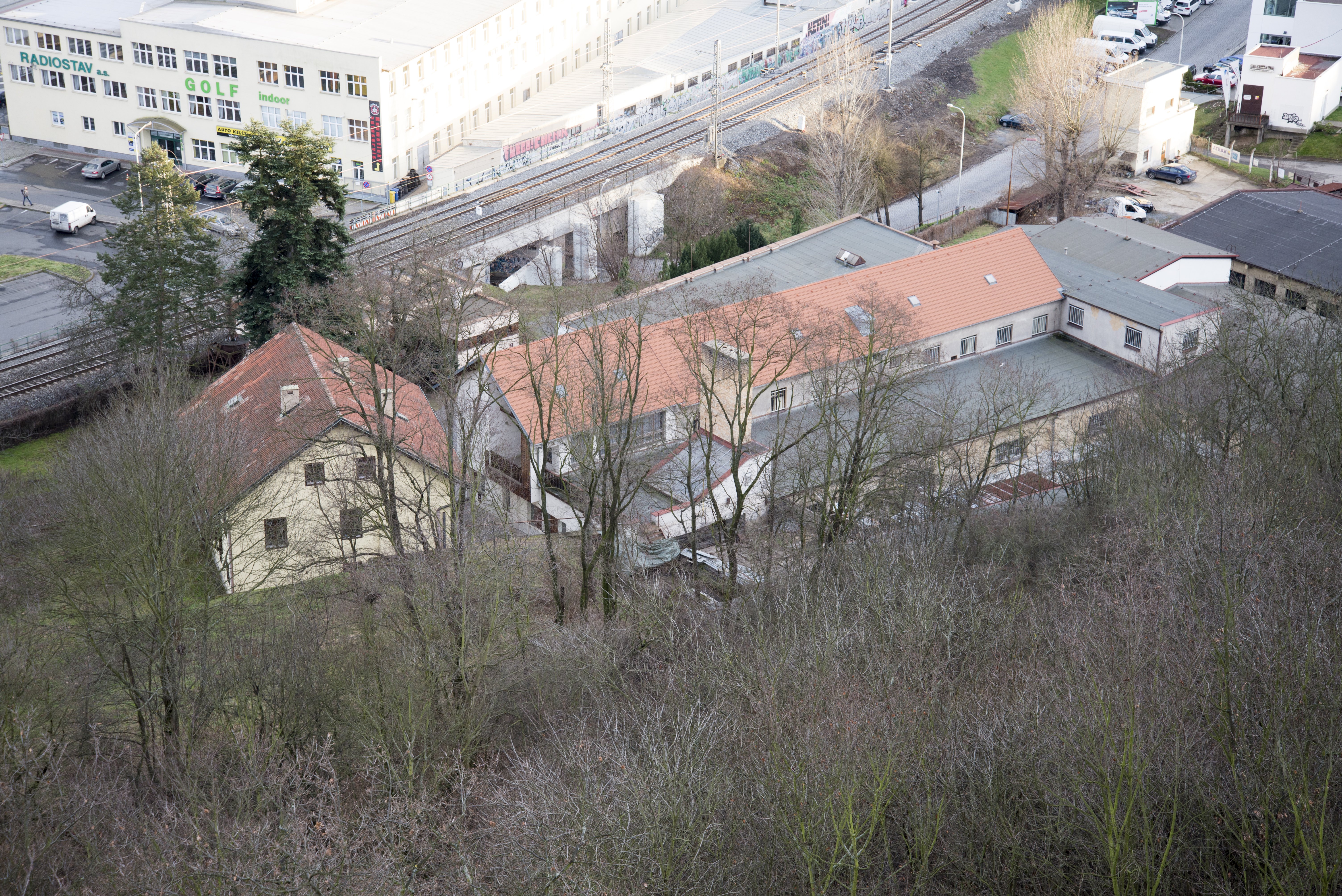 Homestead Majorka - view from Baba ruins